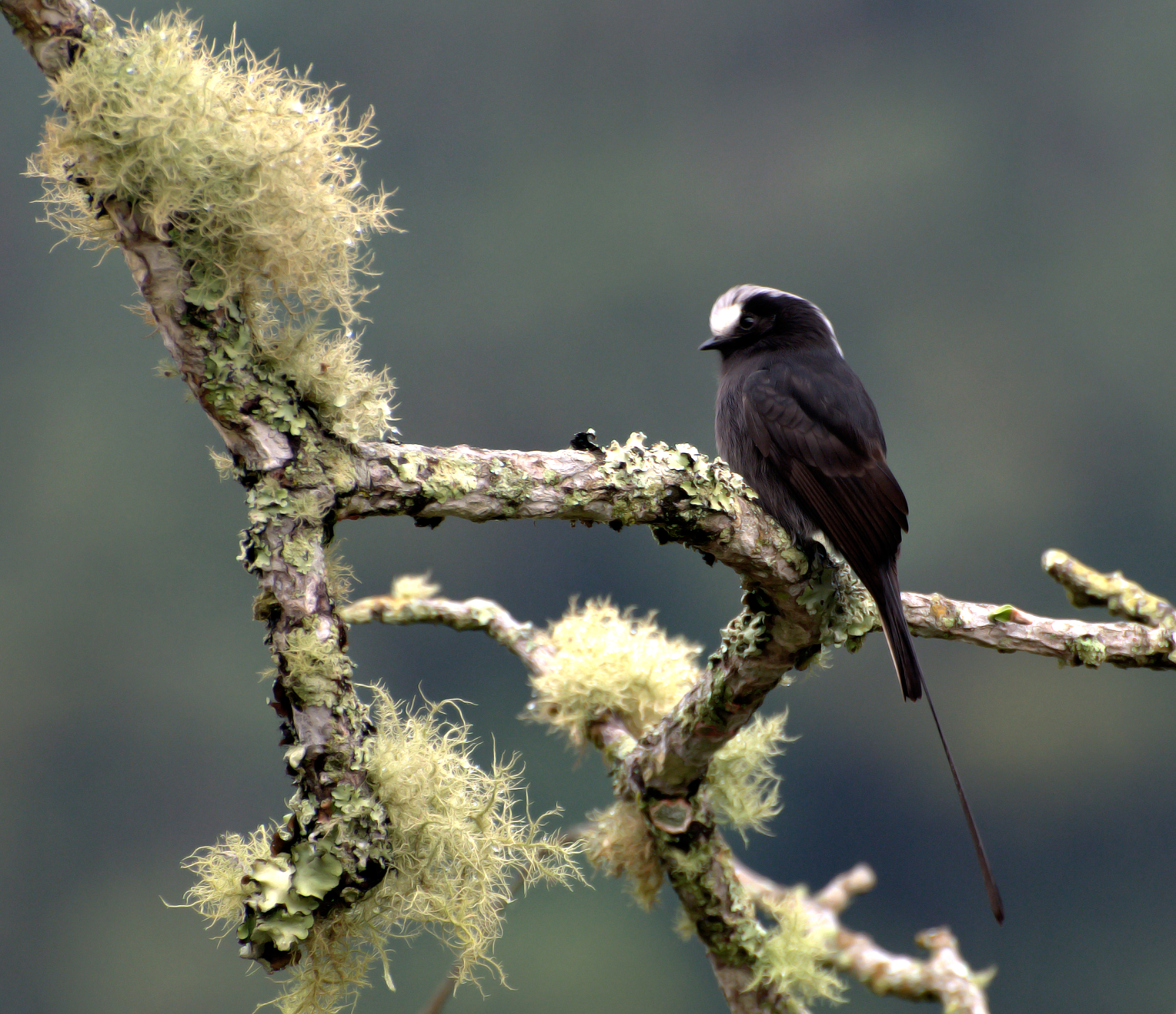 An adult Long-tailed Tyrant in Parque Nacional do Itatiaia, Rio de Janeiro, Brazil.